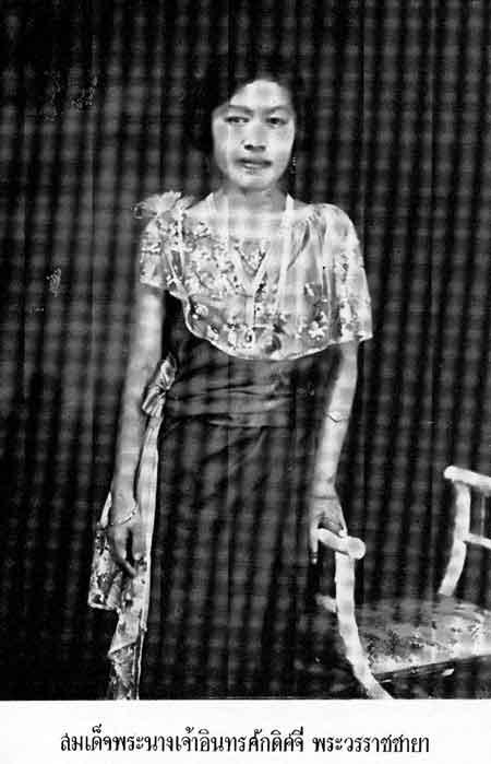 Princess Indrasakdi Sachi